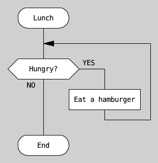 The DRAKON chart for the lunch algorithm.